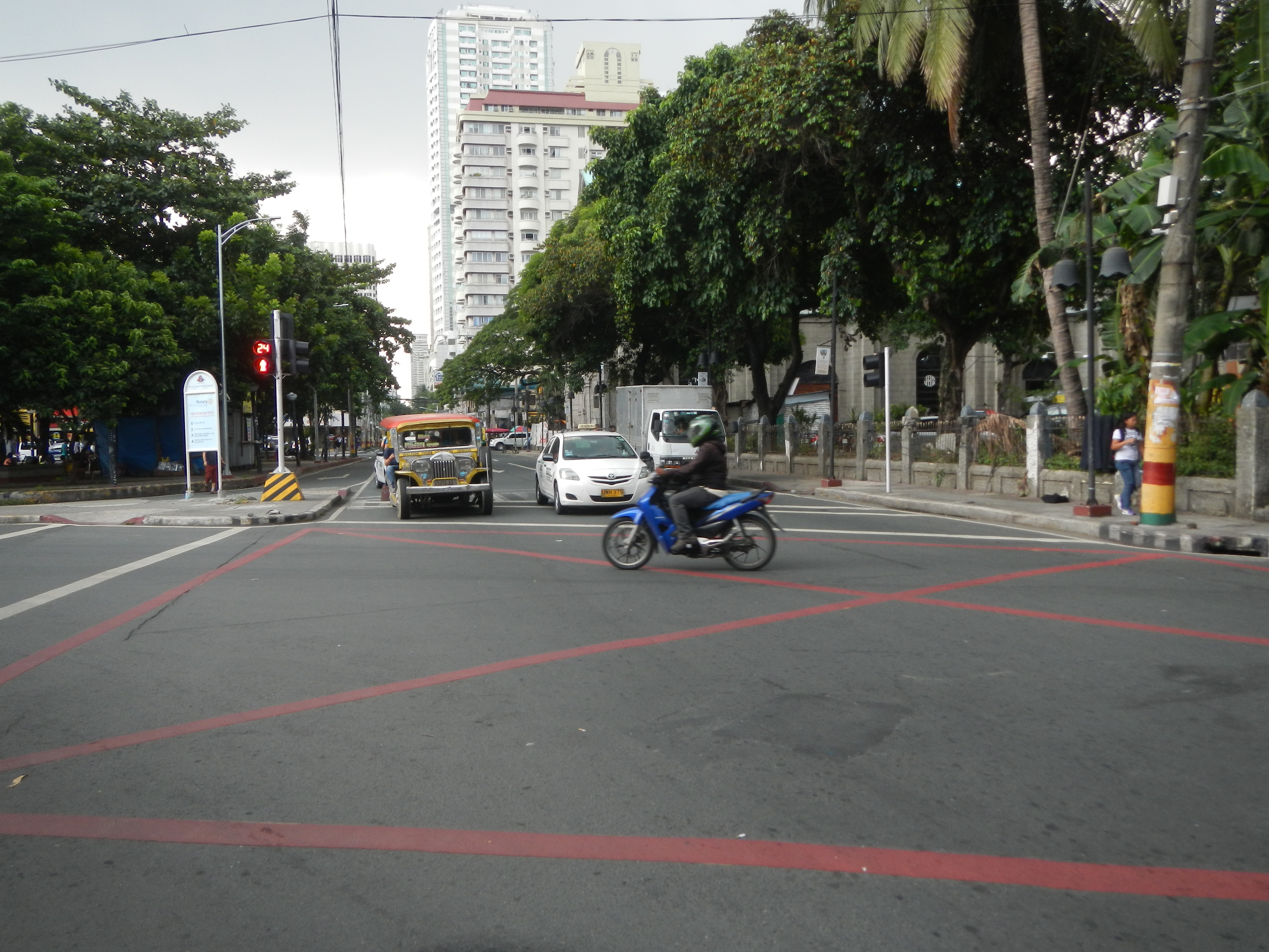 M. H. del Pilar Street corner Mabini Street corner San Andres Street (Remedios Circle Remedios Street Mabini Street Bike lanes Pedro Gil Street (Malate, Manila section) General Malvar Street from Roxas Boulevard (Malate, Manila section) of Roxas Boulevard in the List of roads in Metro Manila, Major roads in Manila, Malate, Manila (in the List of barangays of Metro Manila, Legislative districts of Manila Barangays 669, Zone 72, 698, 699, Zone 76, 700, 701, Zone 77, 719, 720 & 721, Zone 78, District V, Malate, Manila, City of Manila).